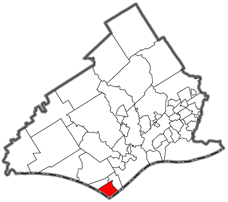 Showing the location within Delaware County, Pennsylvania.